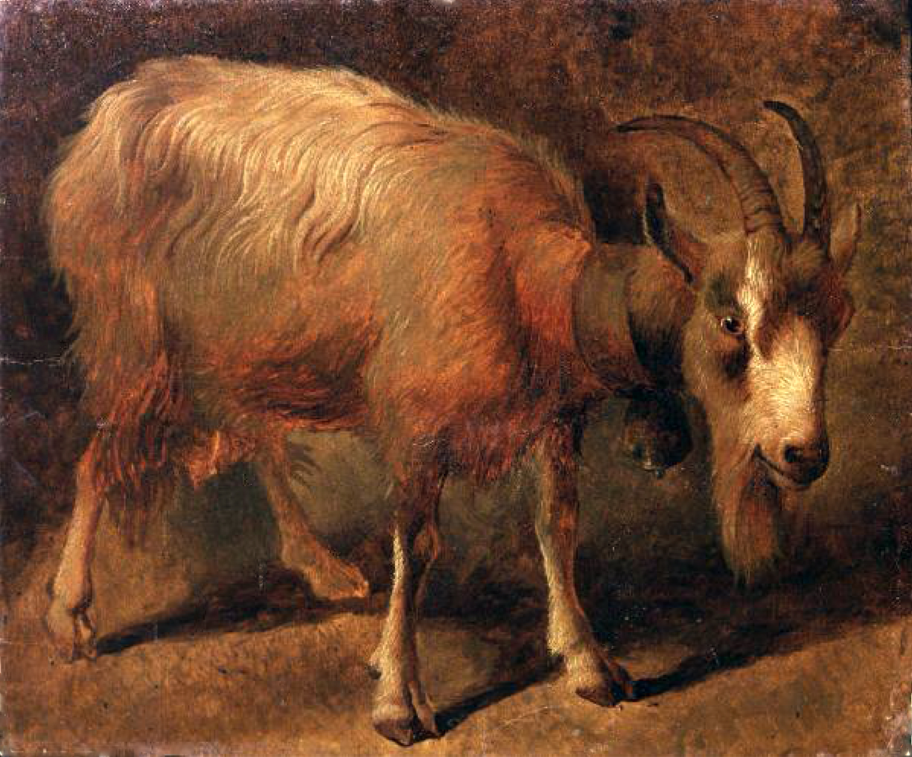 Capra (goat) by Francesco Londonio (1723–1786), painted 1755–1765, oil on paper, 23 x 18 cm. Accademia Carrara, Bergamo, Italy